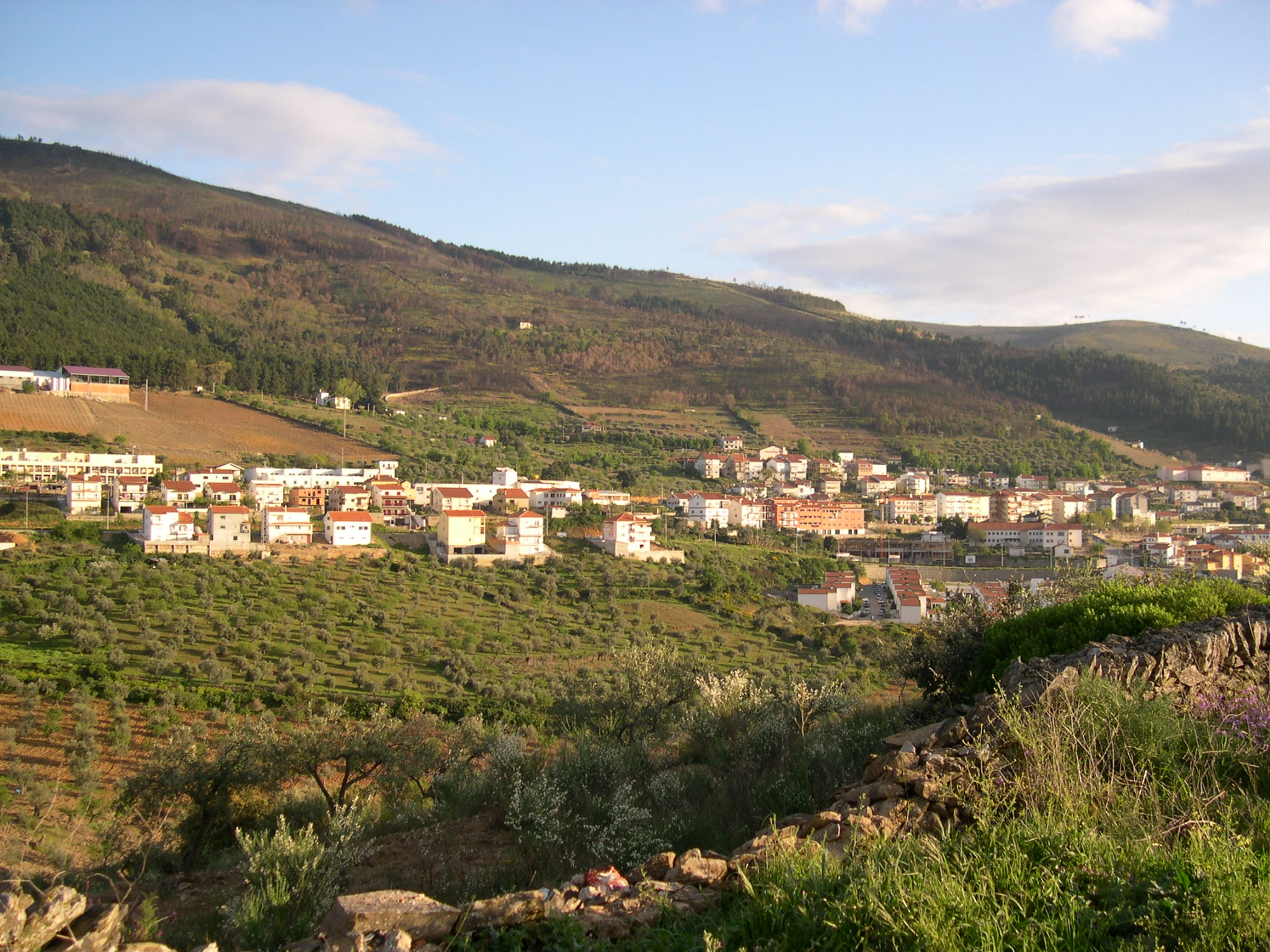 View of Torre de Moncorvo in the evening.